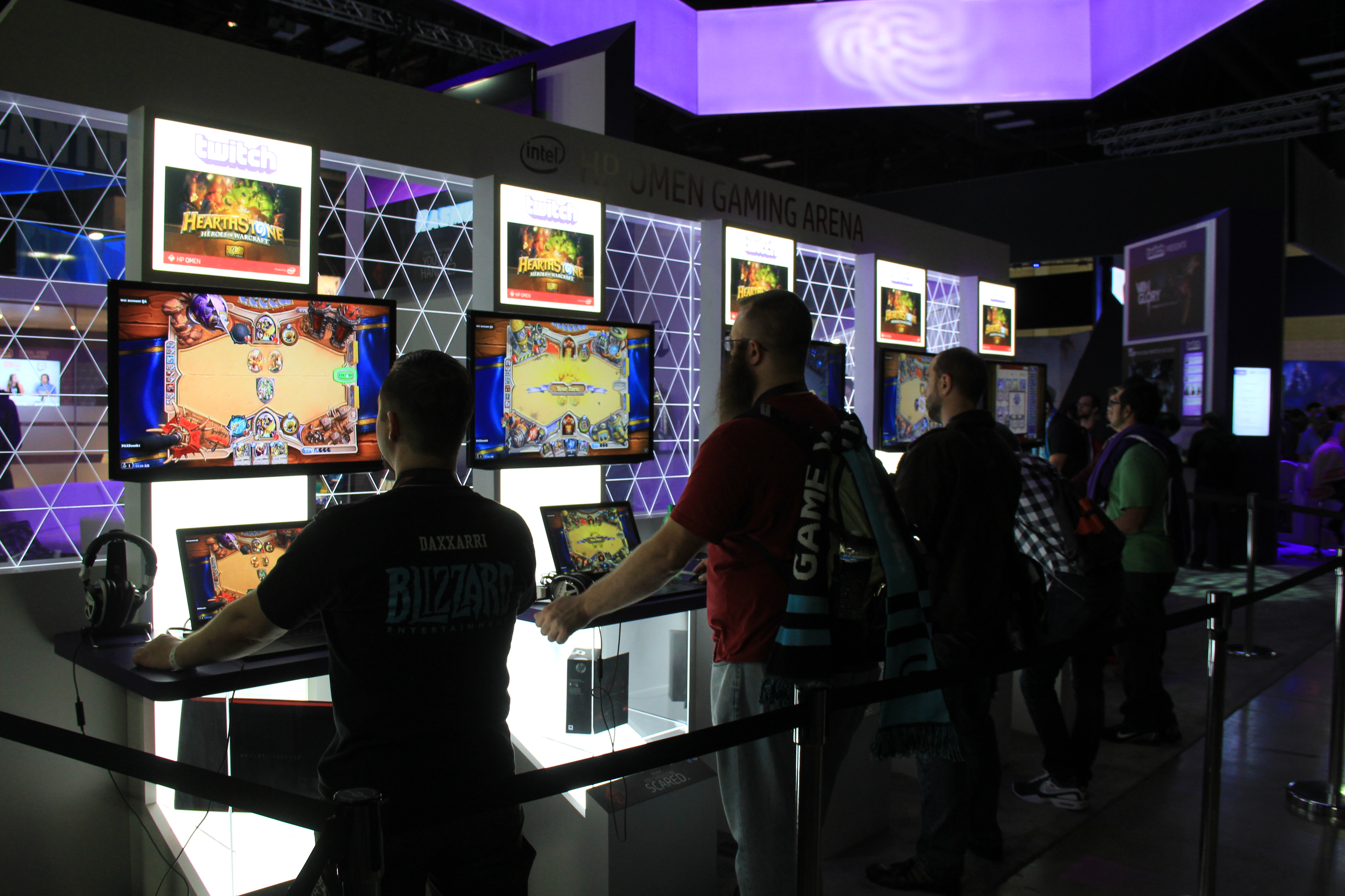 IMG_3539 Taken on day 1 of PAX South 2015.